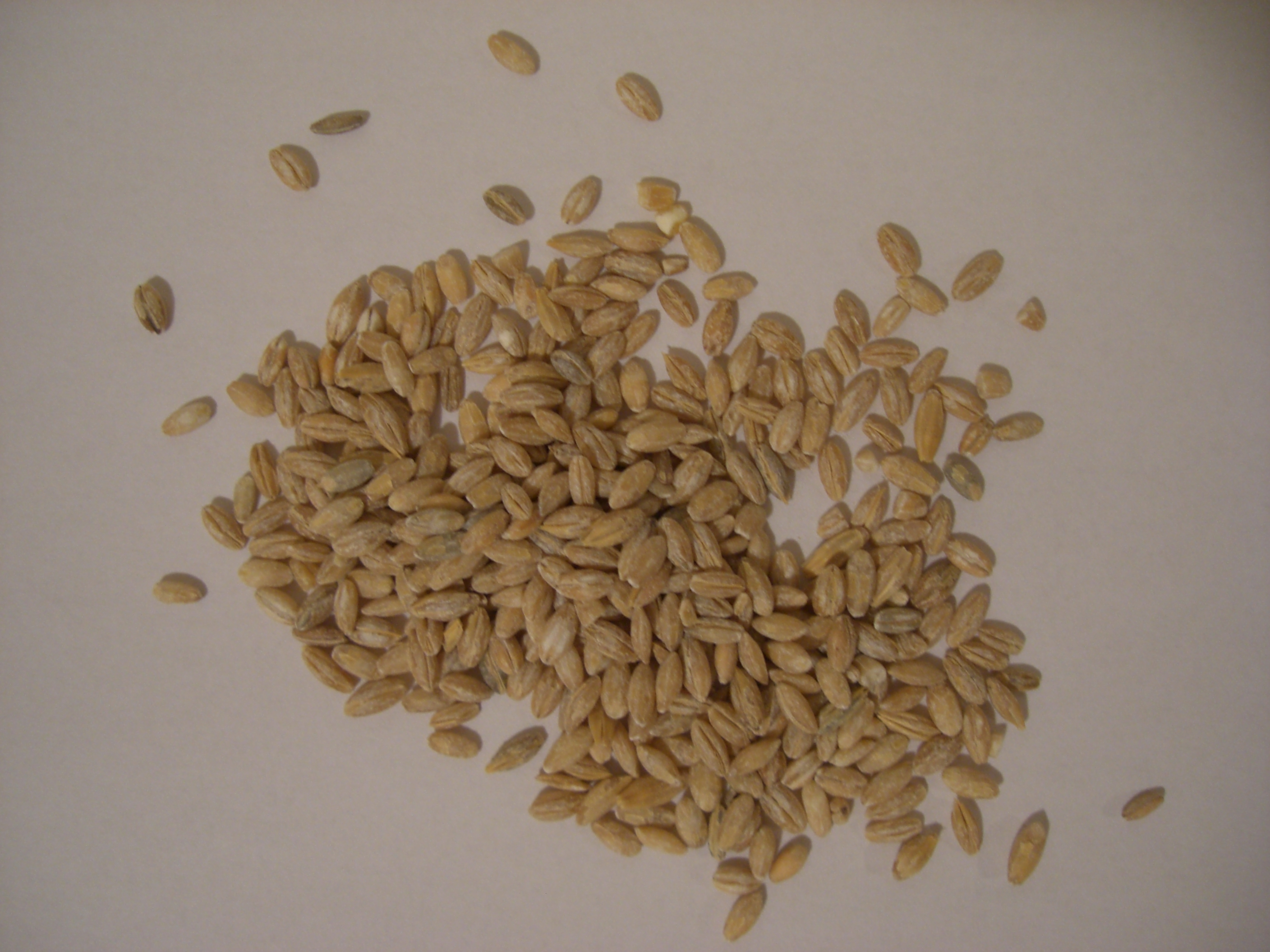 Dry barley seeds